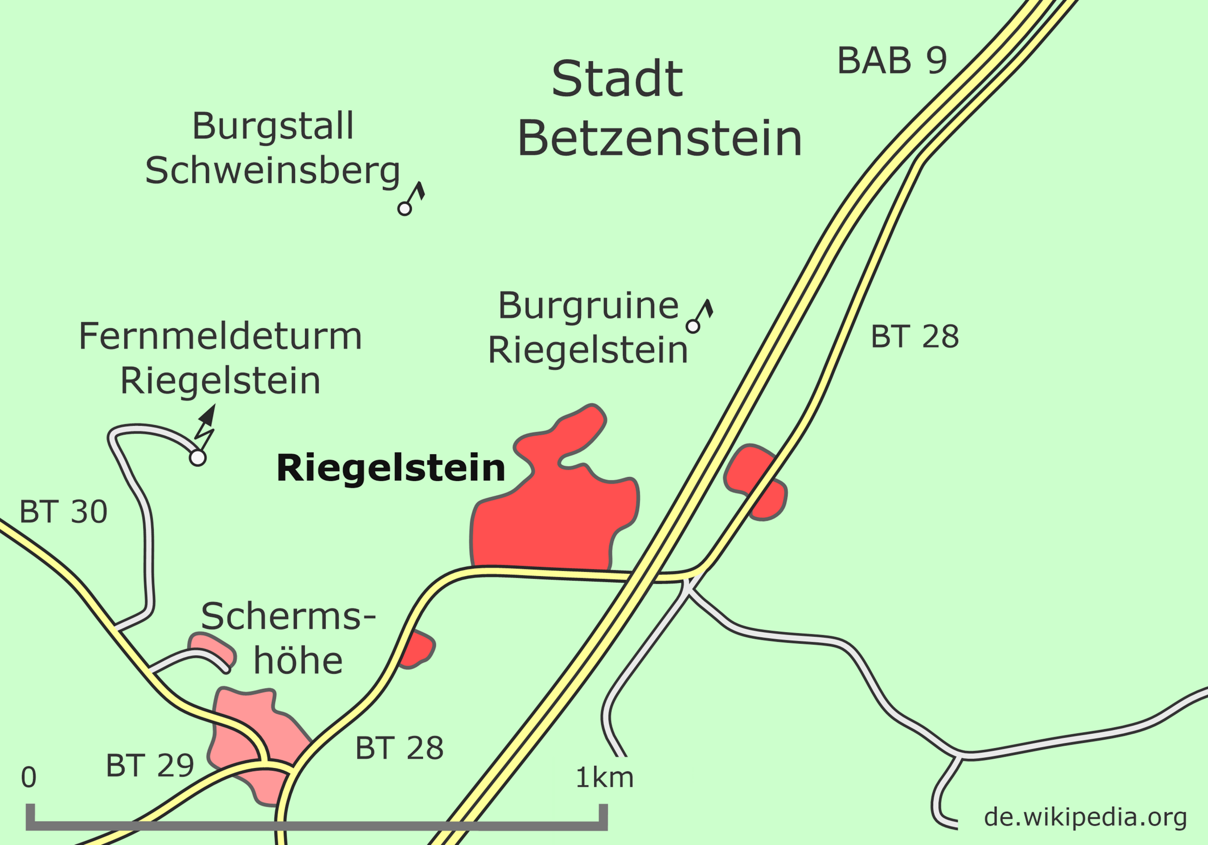 Surroundig map of the village Riegelstein, part of the town of Betzenstein